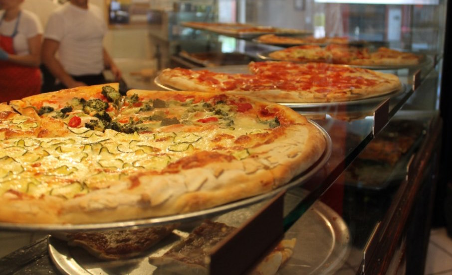 New York-style pizza pies in a display at a pizzeria